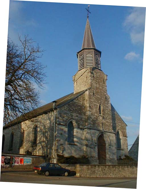 Church of Saint Martin in Flavion. Flavion, Florennes, Namur, Belgium Walon: eglijhe di (portrait saetchî pa L. Mahin).